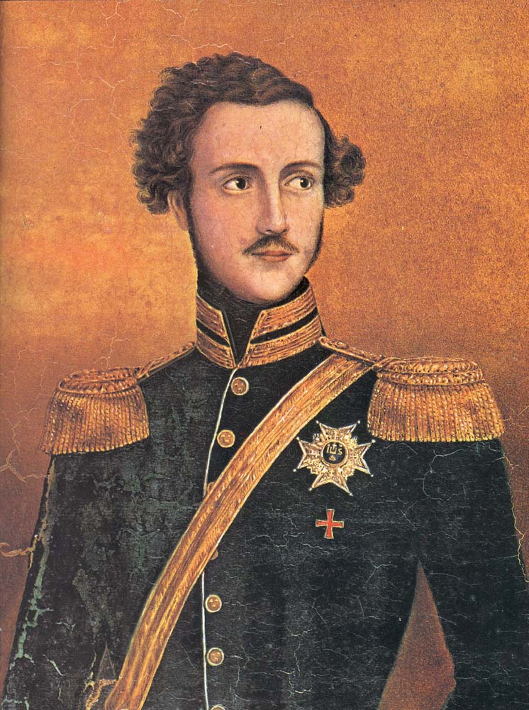 Prince Gustav of Swedena and Norway, Duke of Upland